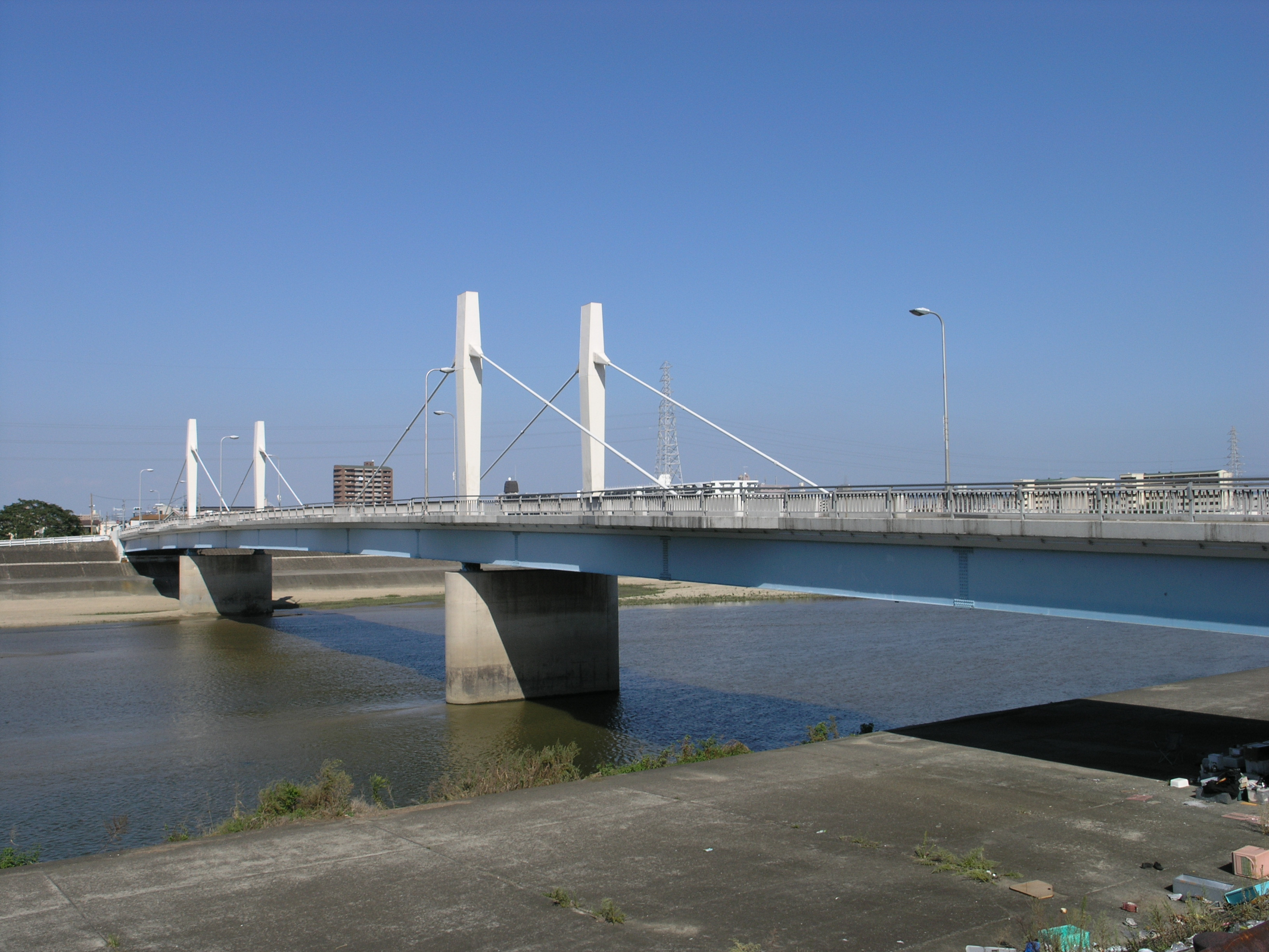 Yamato-bashi (bridge), Sumiyoshi, Osaka